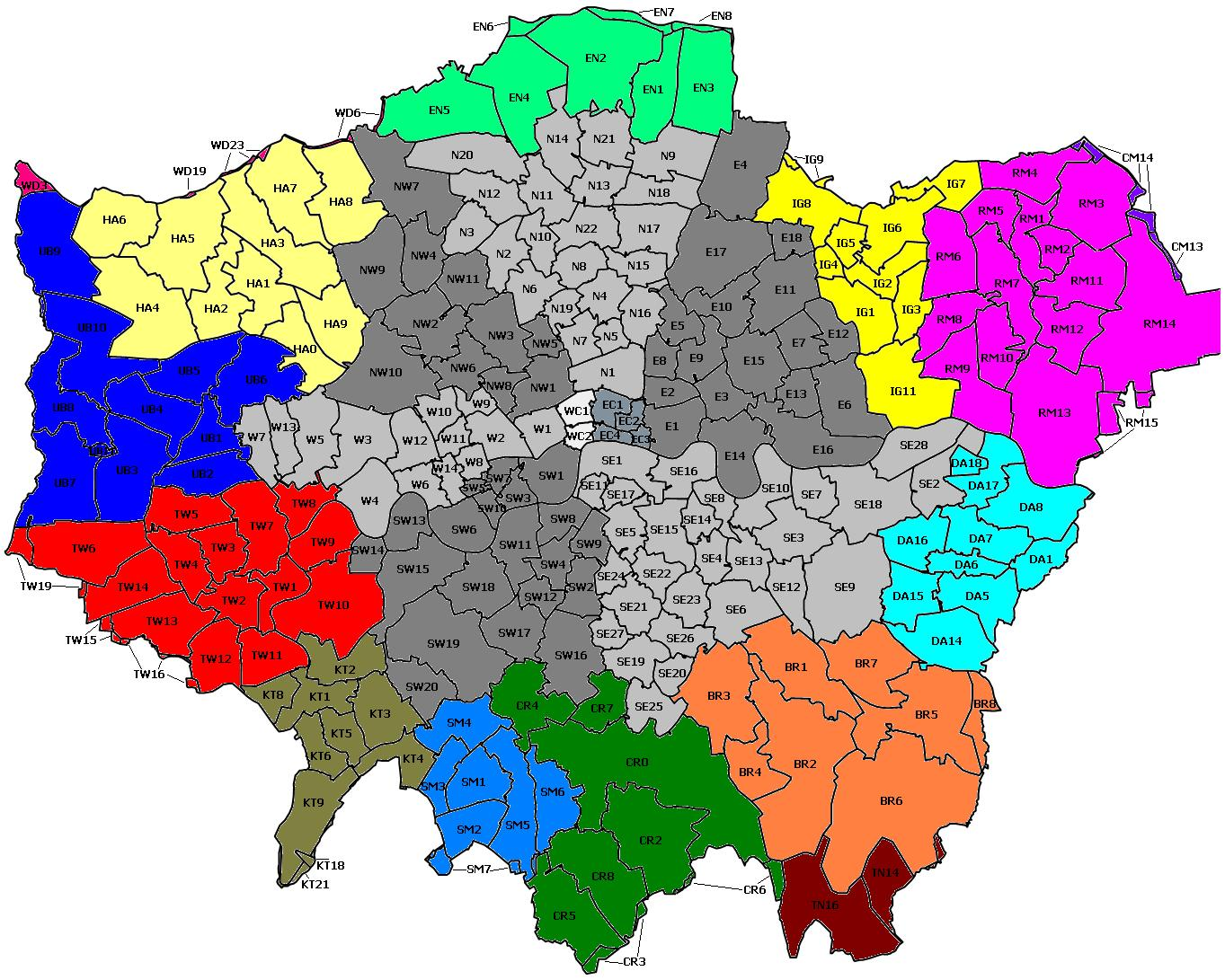 A map of the London Postal Region Map, made from scans of the Collins London Street Finder.